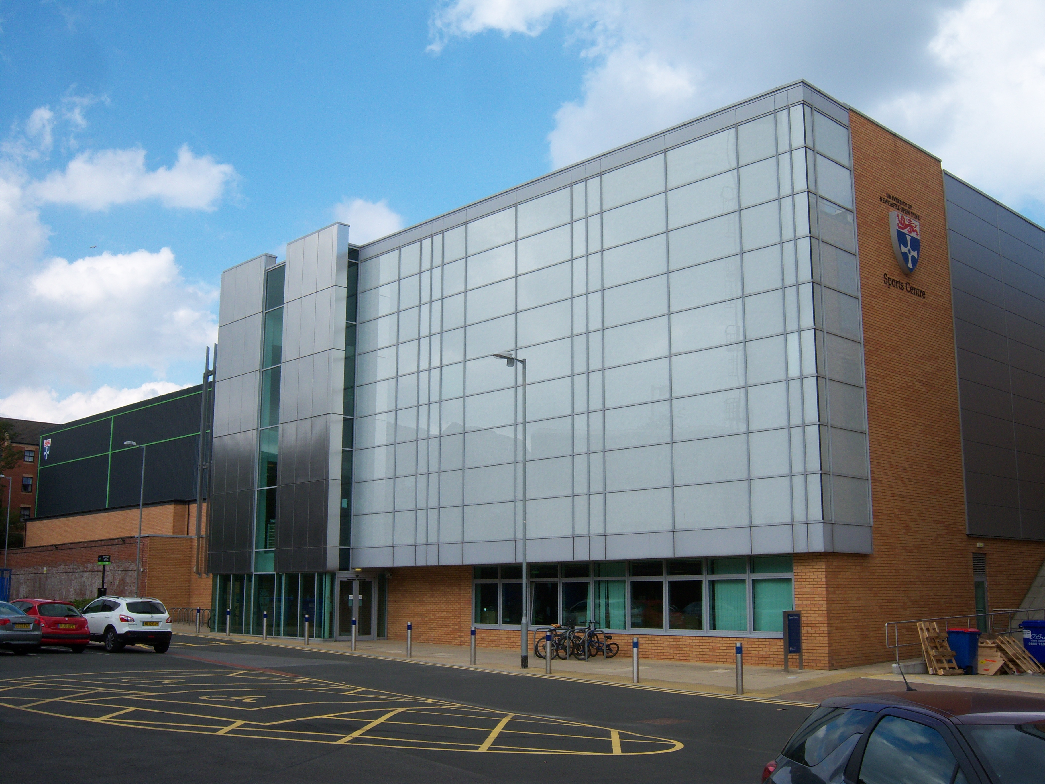 Sports Centre, Newcastle University. South facade